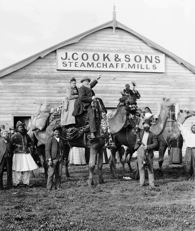 "Afghan" camel handlers with white visitors, c. 1891, location unknown (poss. Western Australia). To be used on Afghan (Australia) (to be renamed soon).